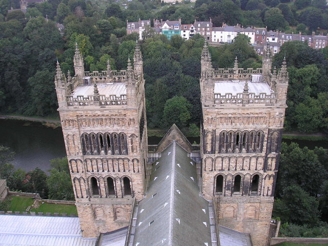 Twin Romanesque west towers of Durham Cathedral, seen from the main tower. The River Wear is visible below.